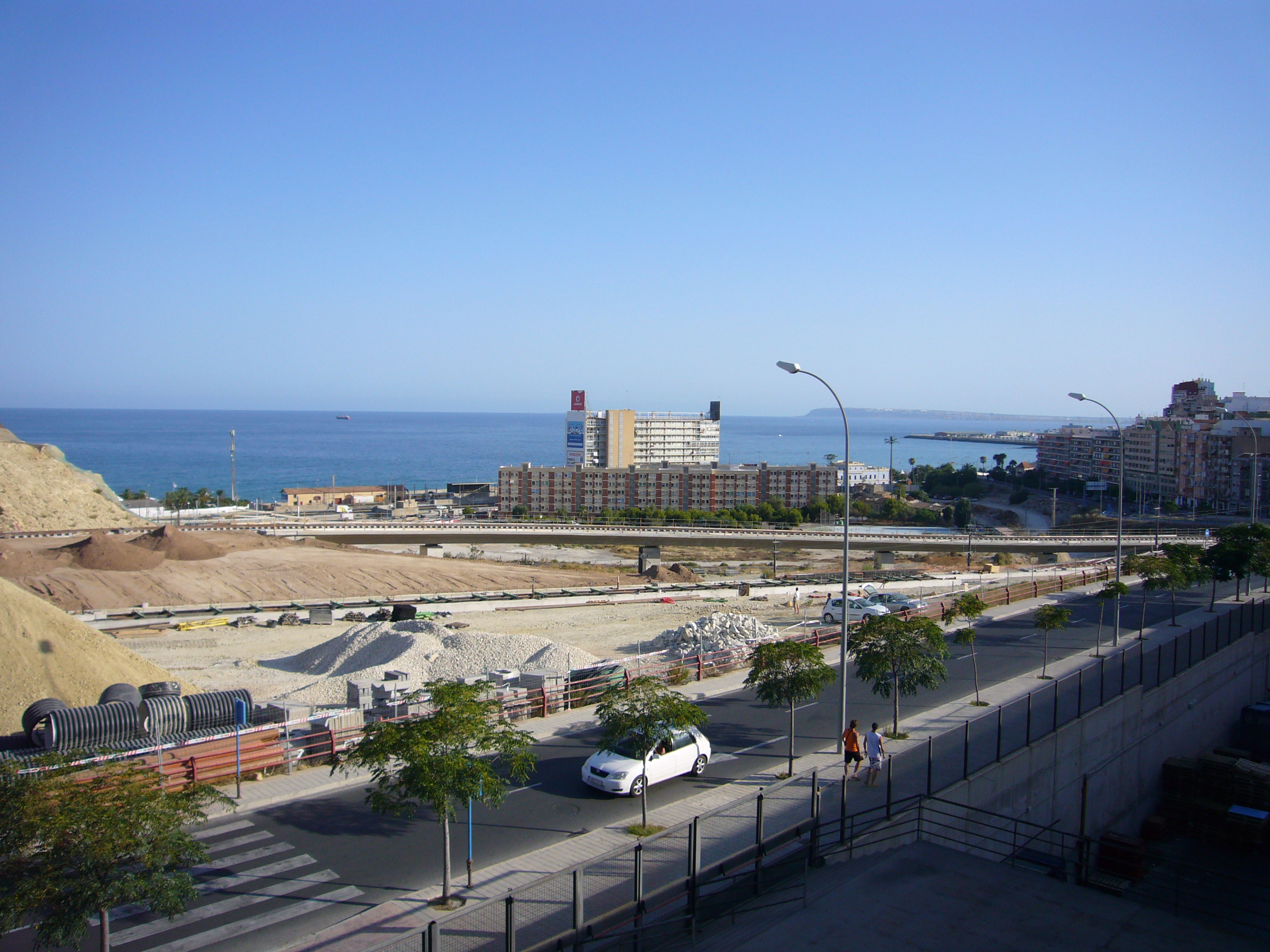 Sangueta, Alicante, Spain.